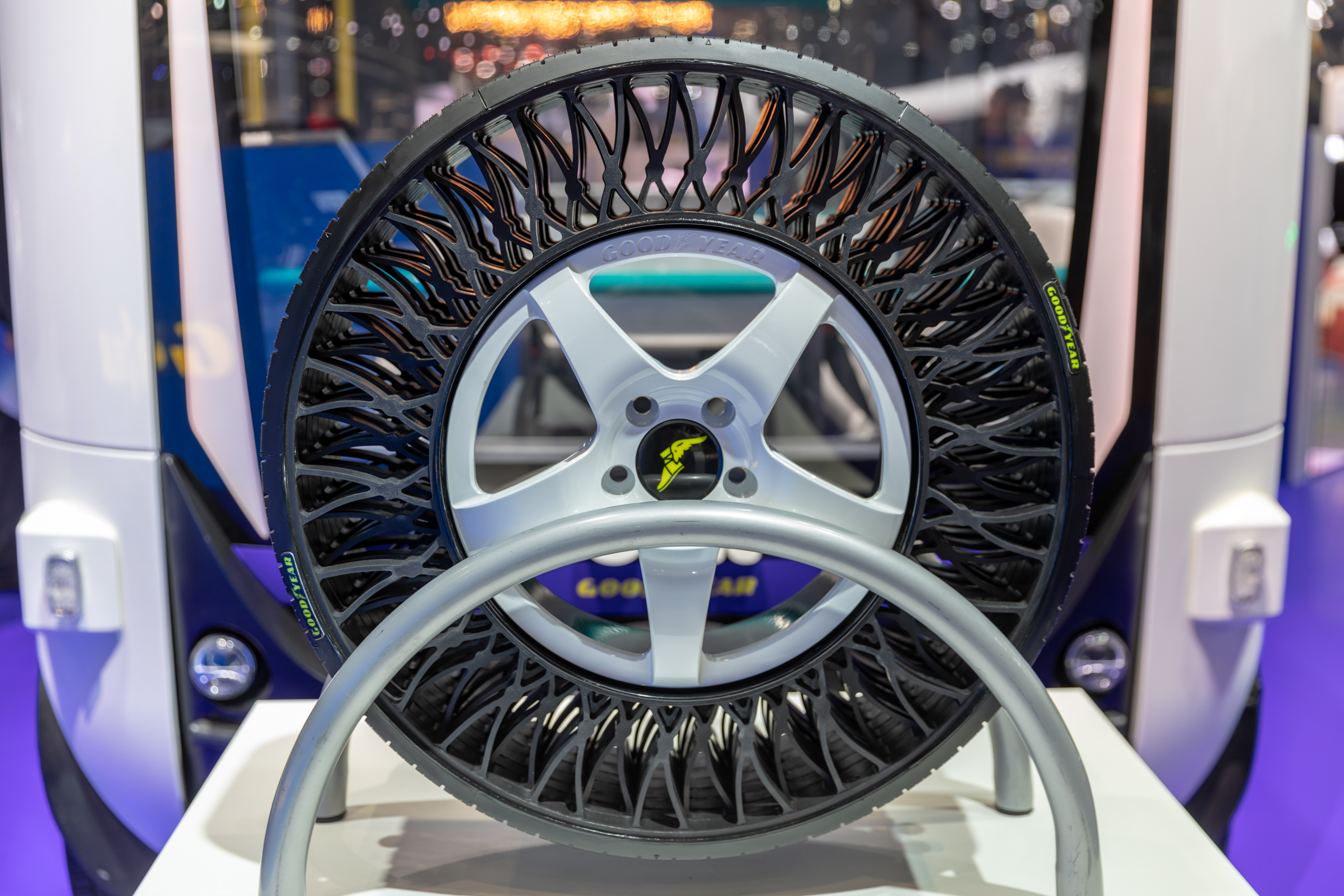 Goodyear at Geneva International Motor Show 2019, Le Grand-Saconnex